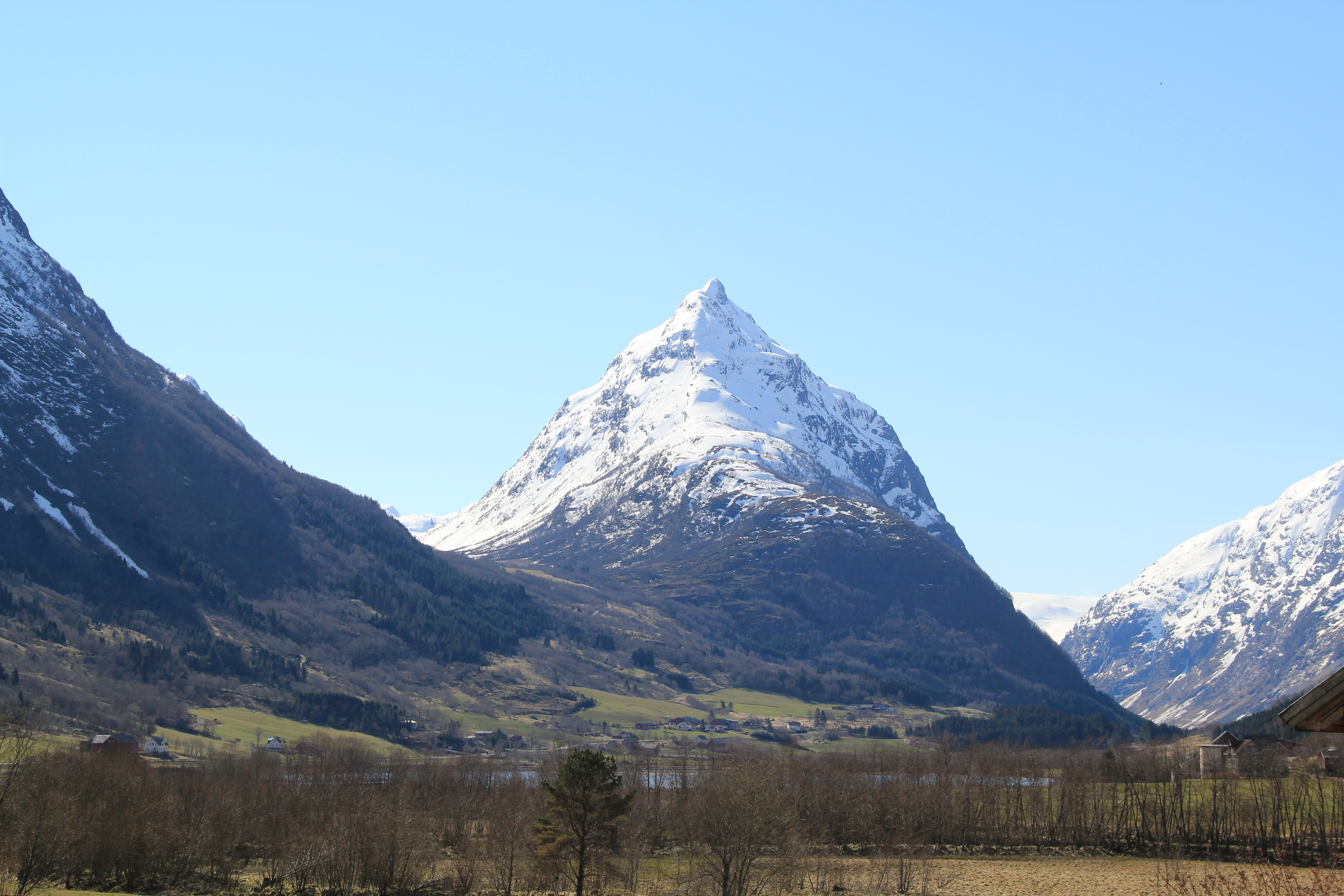 Eggenipa, landmark mountain